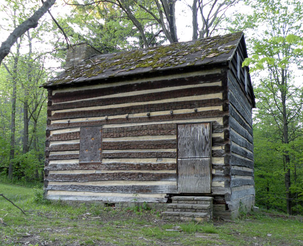 Picture of Walker-Ewing-Glass Log House, located on Pinkerton Run Road in Settler's Cabin Park not far from the park's Maintenance Center, on May 9, 2010. Settler's Cabin Park gets its name from this log house. It may have been built in the 1780s by a man named John Henry. In 1785, Isaac and Gabriel Walker acquired the land, and Gabriel built the nearby Walker-Ewing Log House around the same time. The house is on the List of Pittsburgh Landmarks recognized by the Pittsburgh History and Landmarks Foundation (PHLF).